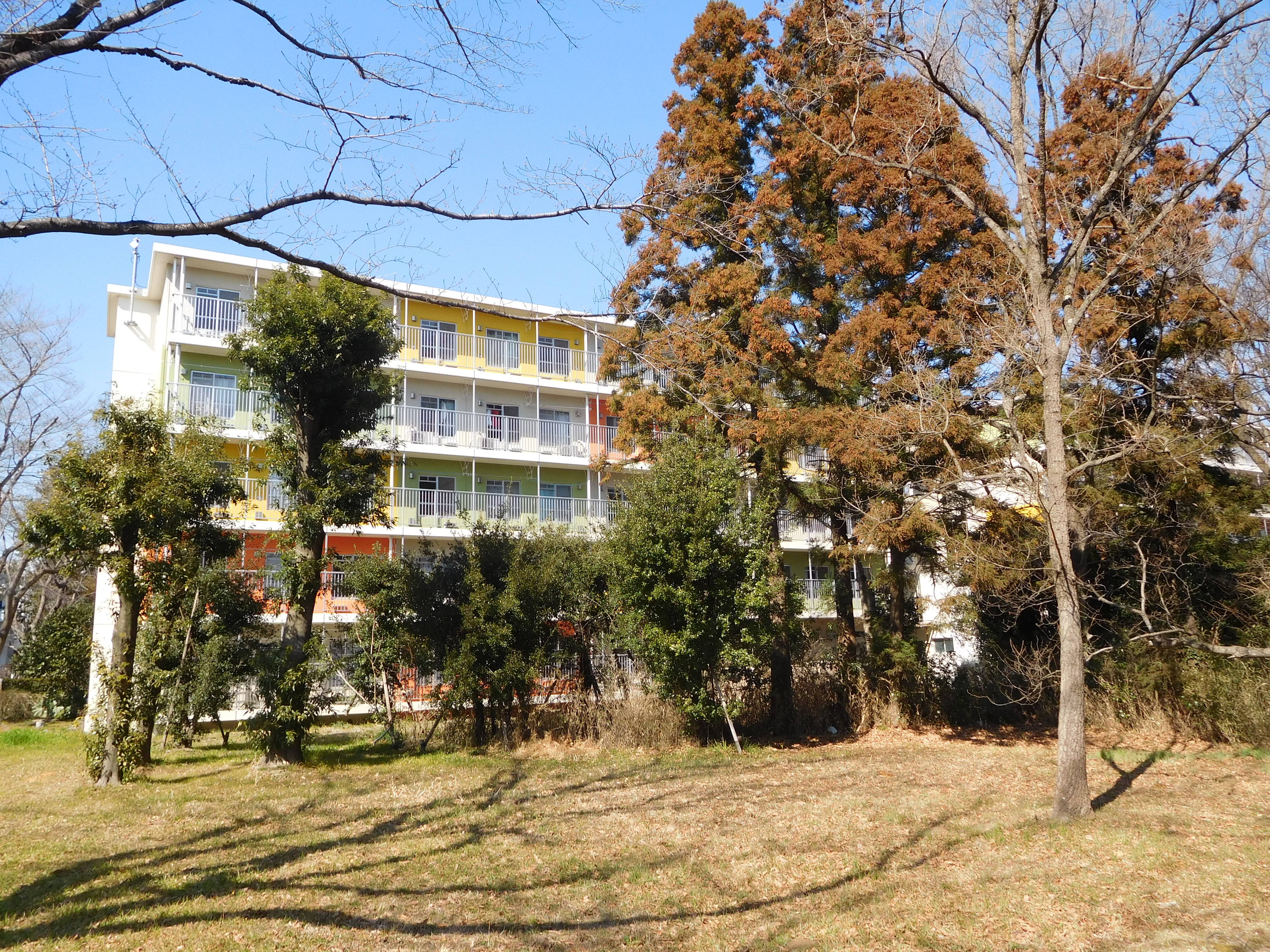 This is the University of Tsukuba Kasuga Residence buildings in Tsukuba, Ibaraki, Japan.